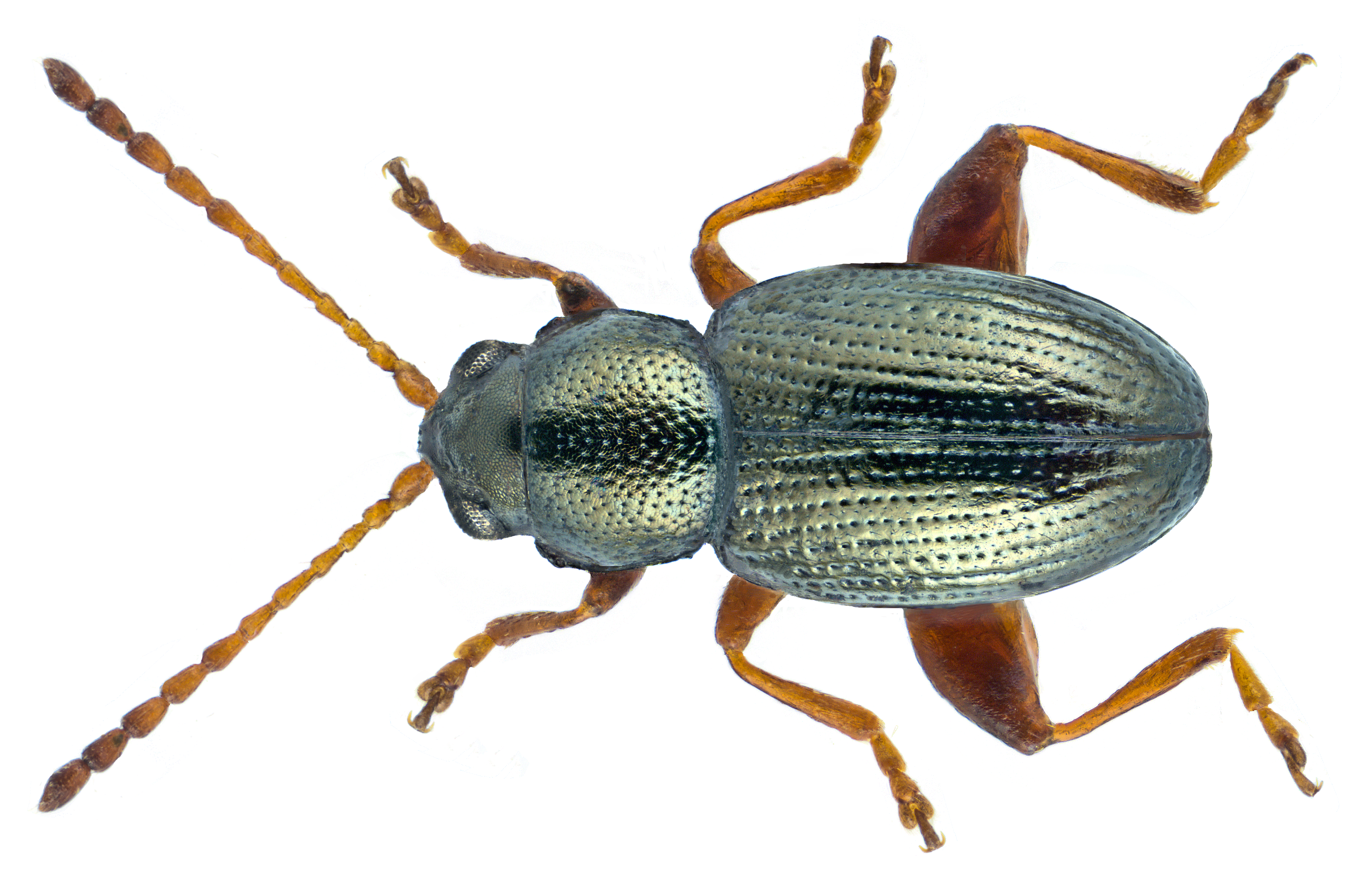 Family: Chrysomelidae Size: 1.7 mm (1,0 to 1,8 mm) Distribution: Western Europe, Switzerland, Southern Germany Ecology: on Rubus and Fragaria species Location: Germany, Rhineland-Palatinate, Kirn, Nahetal, Martinstein leg.det. K.Renner, 15.V.1989 Photo: U.Schmidt, 2015